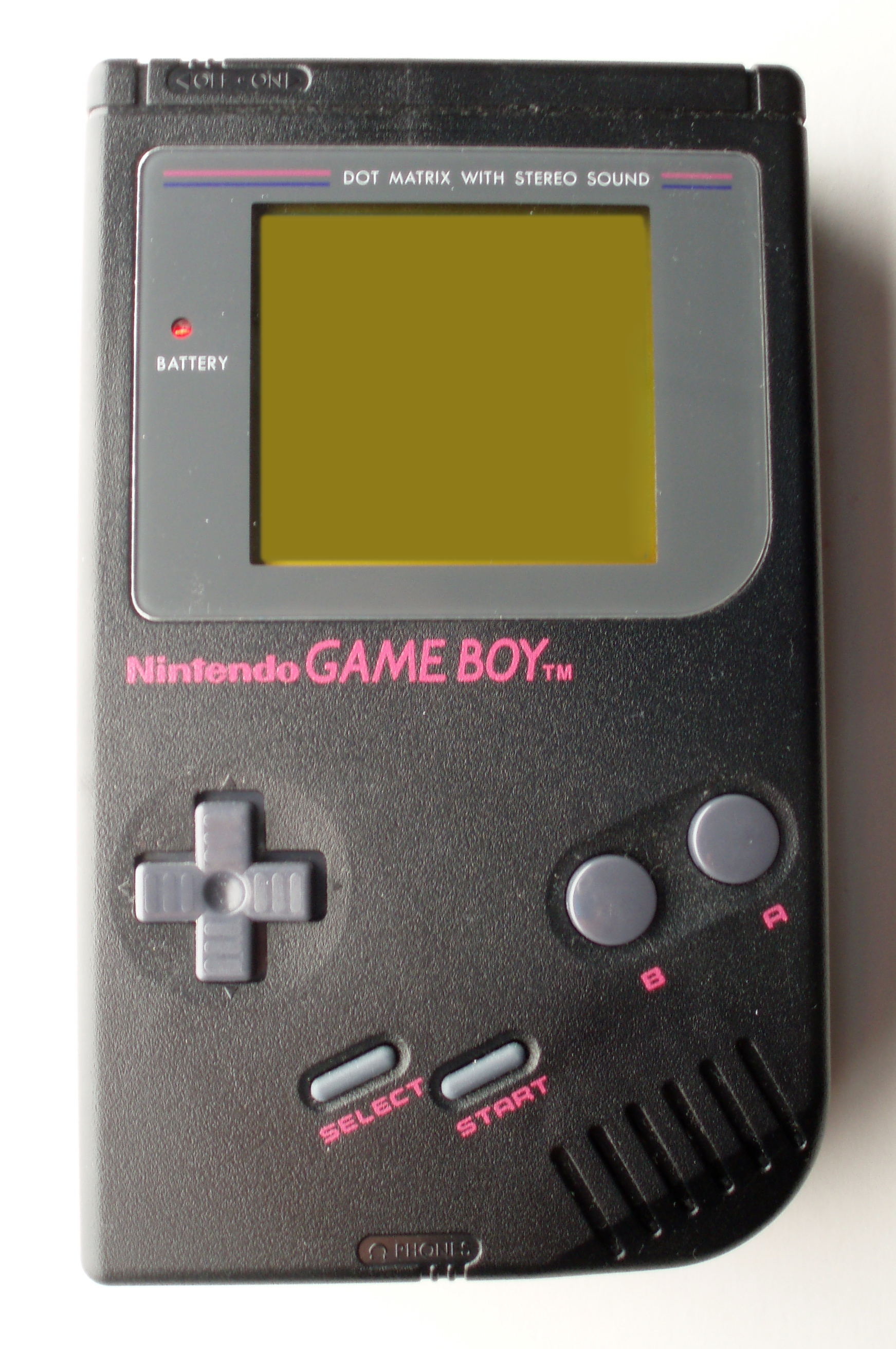 1995 "Play it loud!" Game Boy, black